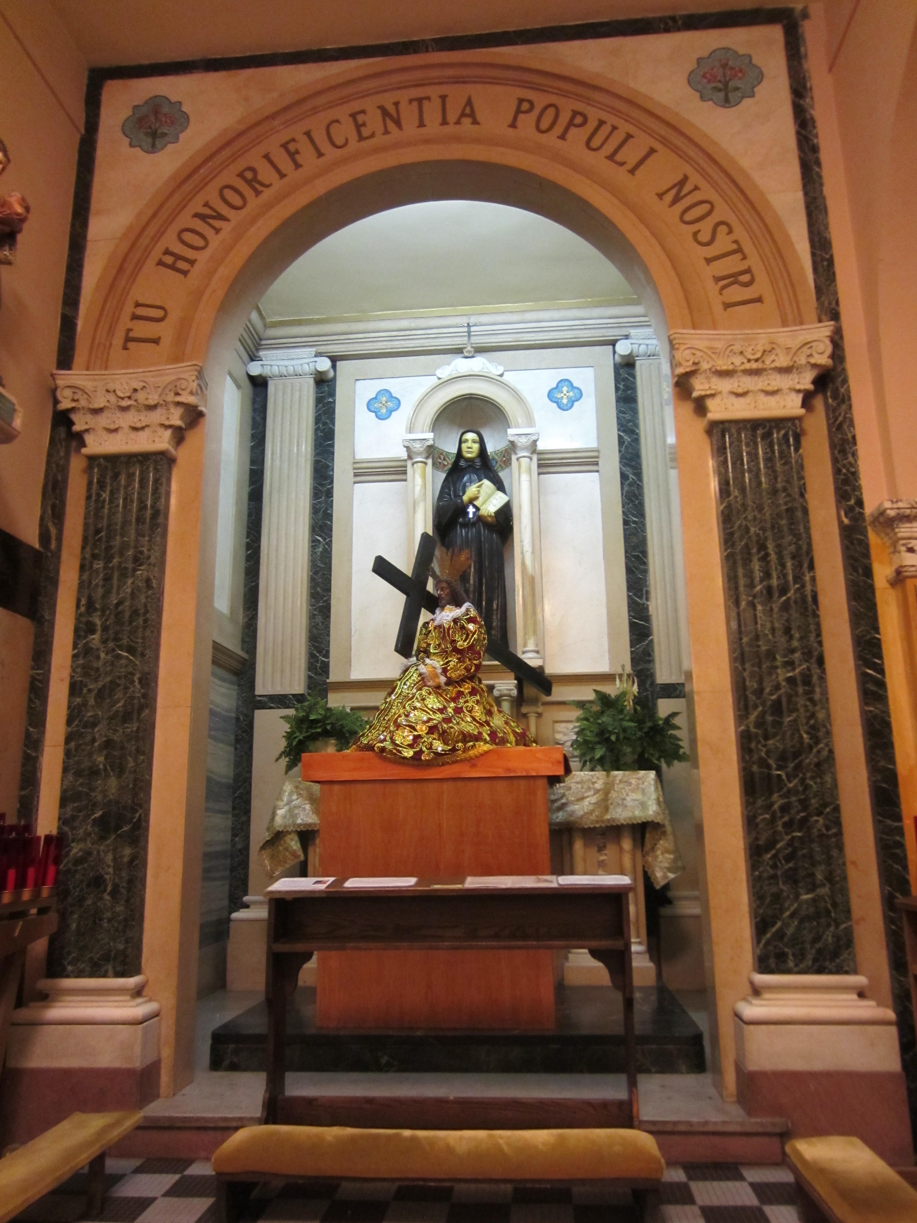 Mother Cabrini Shrine, Our Lady of Pompeii Church, Manhattan, NYC (May 2014)